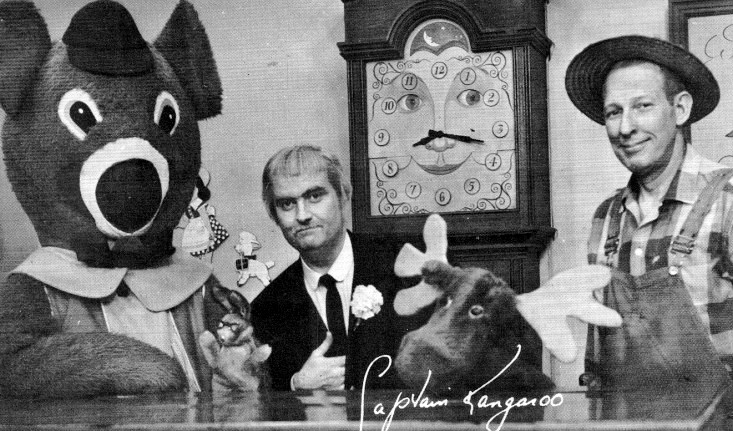 Promotional postcard for the television program Captain Kangaroo. Shown from left are: Dancing Bear, Bunny Rabbit, Captain Kangaroo, Grandfather Clock, Mister Moose, and Mister Green Jeans.